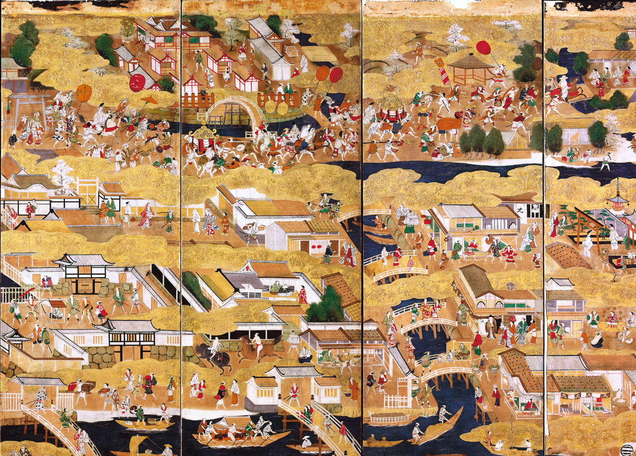 The screen of the Toyotomi period Osaka folding screen (Eggenberg Castle, Austria). People carrying mikoshi are drawn in Sumiyoshi Taisha's summer ritual "Arawa Daiohara"